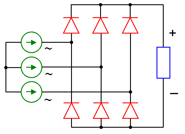 Three-phase full-wave rectifier (with 6 diodes).